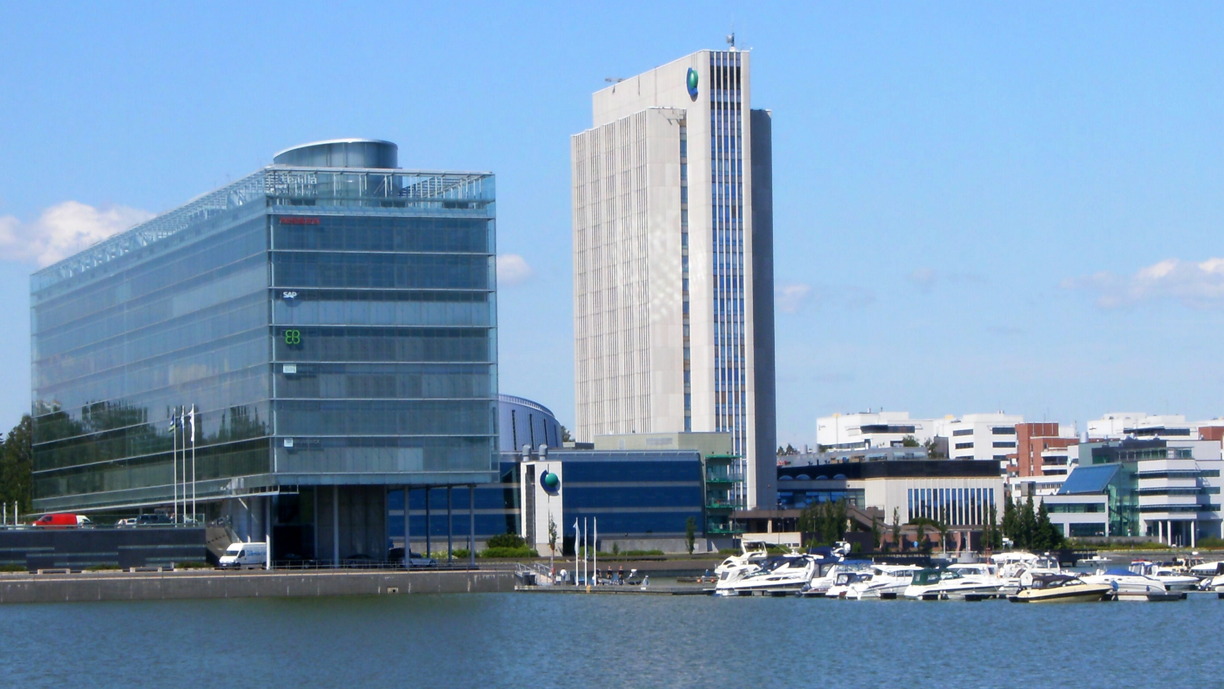 Office buildings, boats, sea, Keilalahti, Espoo, Finland